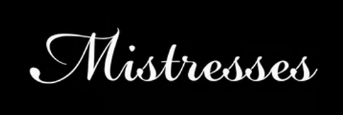 Logo of U.S. TV series Mistresses